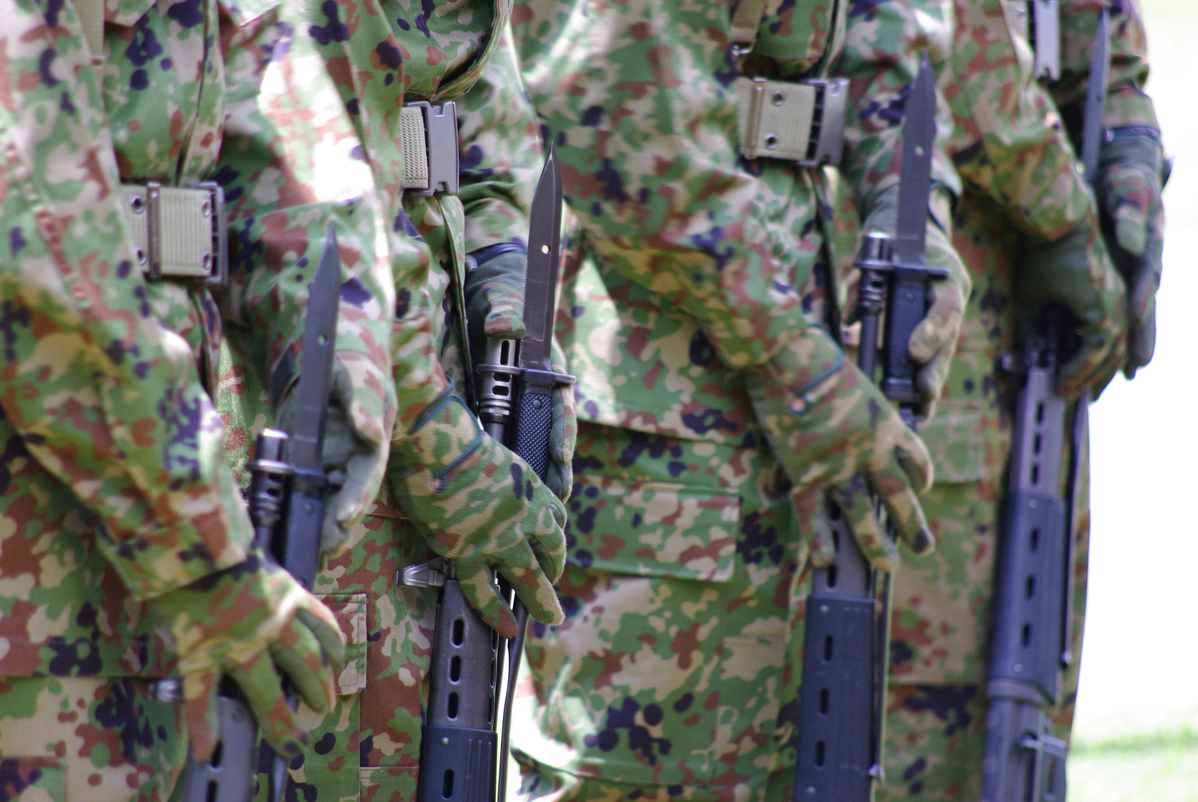 JGSDF Type 89 Rifle,32nd Infantry Regiment.Taken by Los688,in Camp Omiya,Japan,at 10-Jun-2012.PD-self 陸上自衛隊 89式小銃、第32普通科連隊。2012年06月10日、大宮駐屯地で撮影。